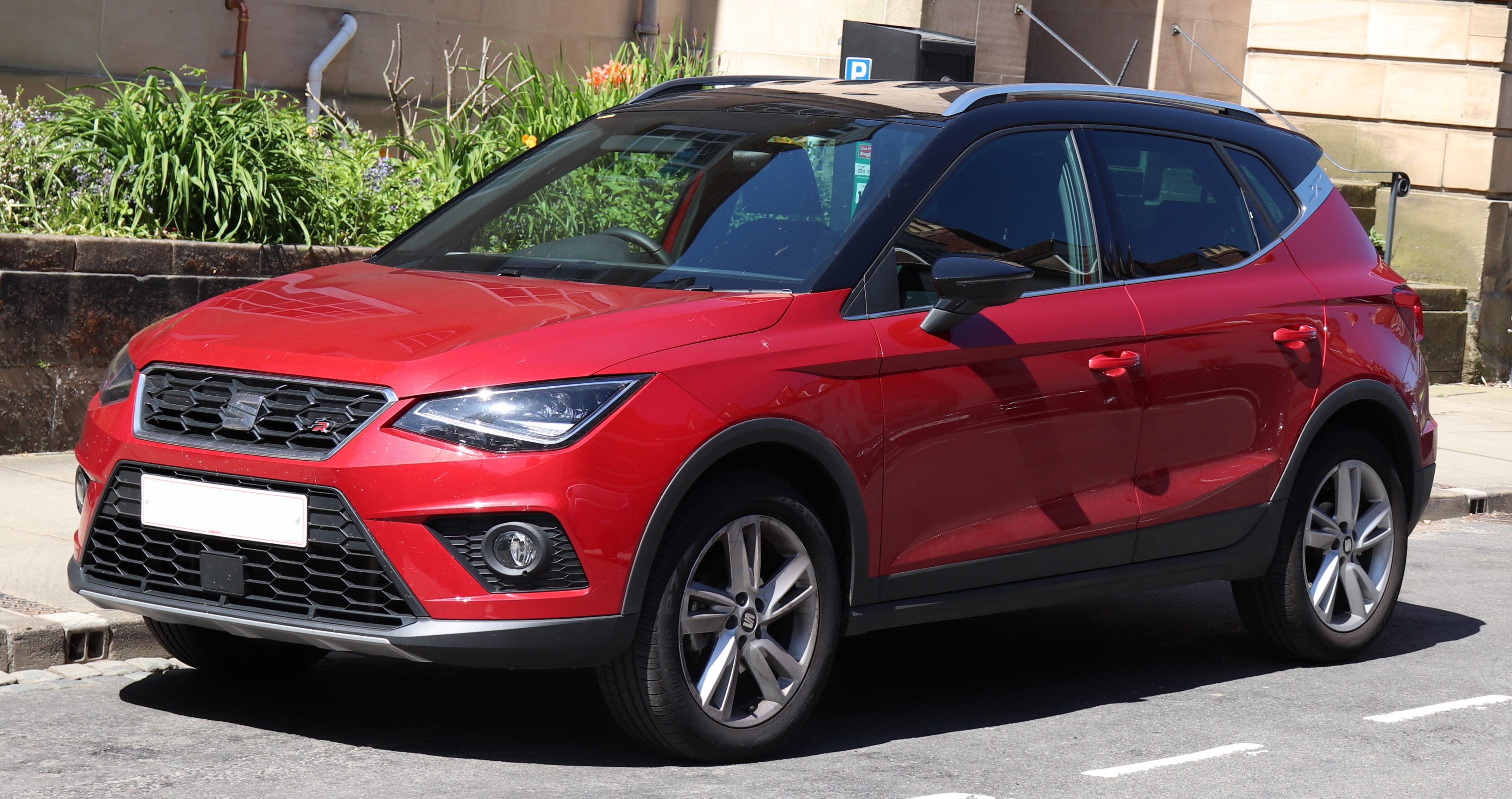 2017 SEAT Arona FR TSi 1.0 Front Taken in Warwick